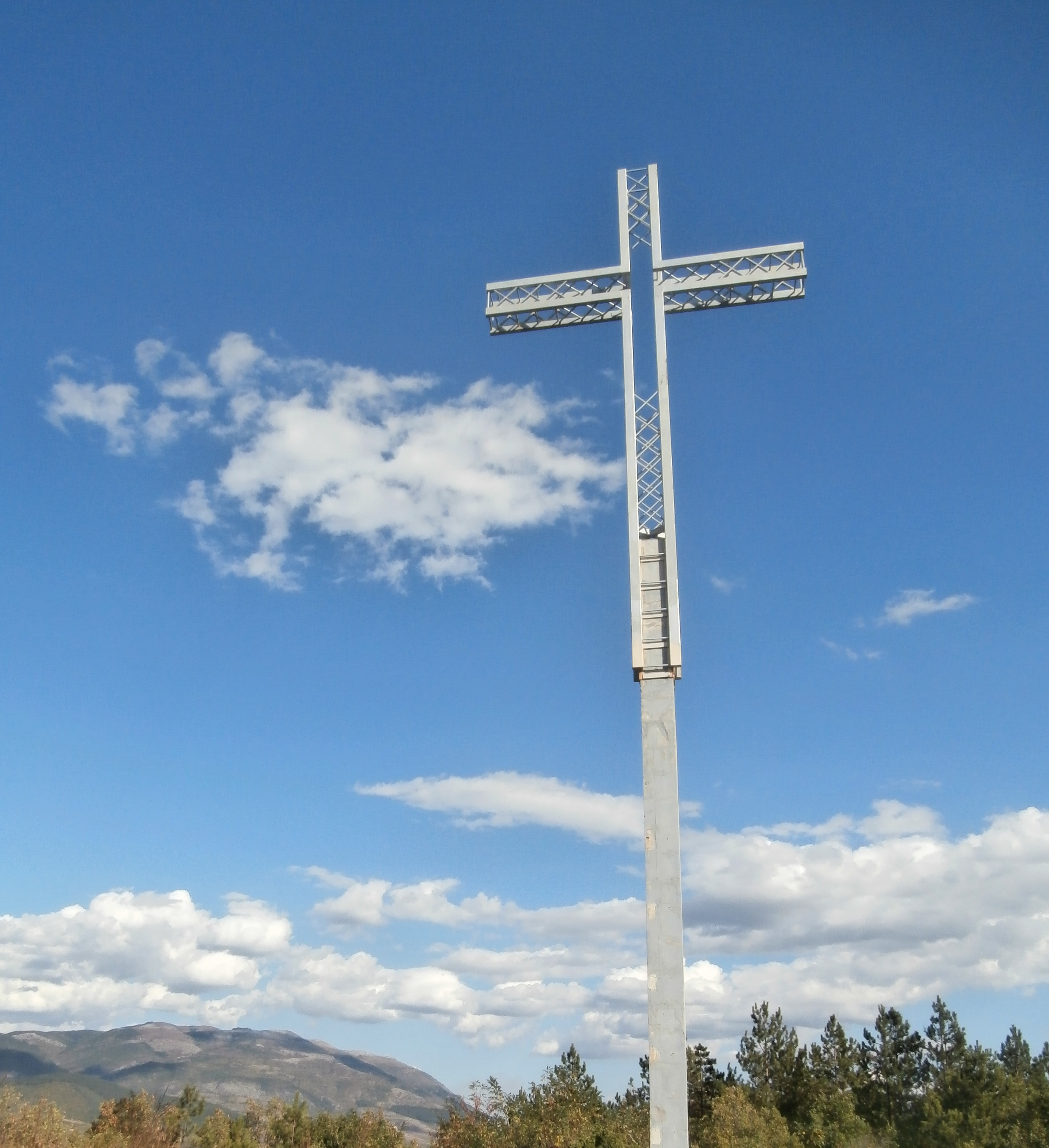 The Cross of the Spasovica